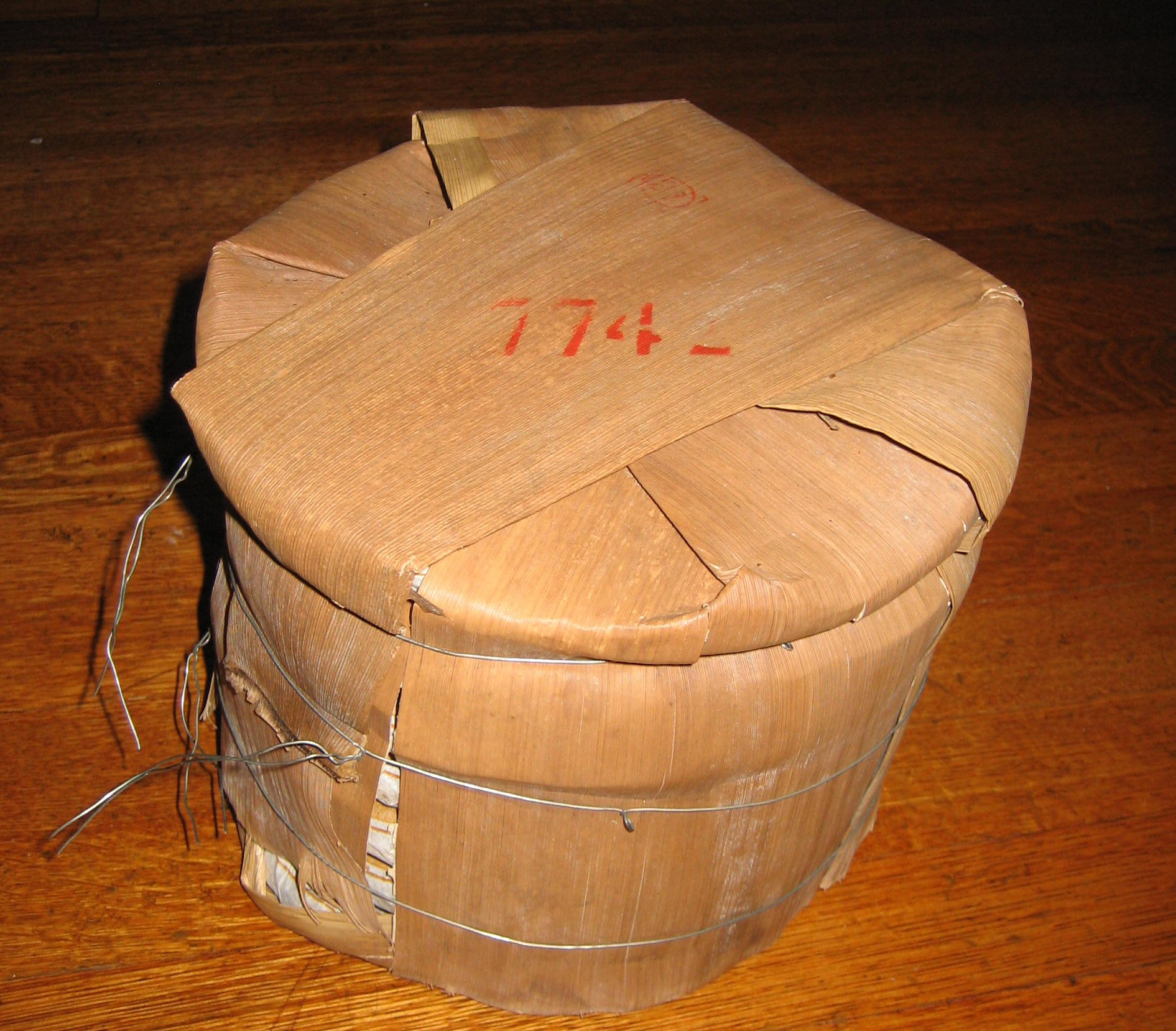 A tong (stack) of pu'er tea, in particular the 2006 7742 recipe by Menghai Tea Factory. Photo by me, Jason Fasi.